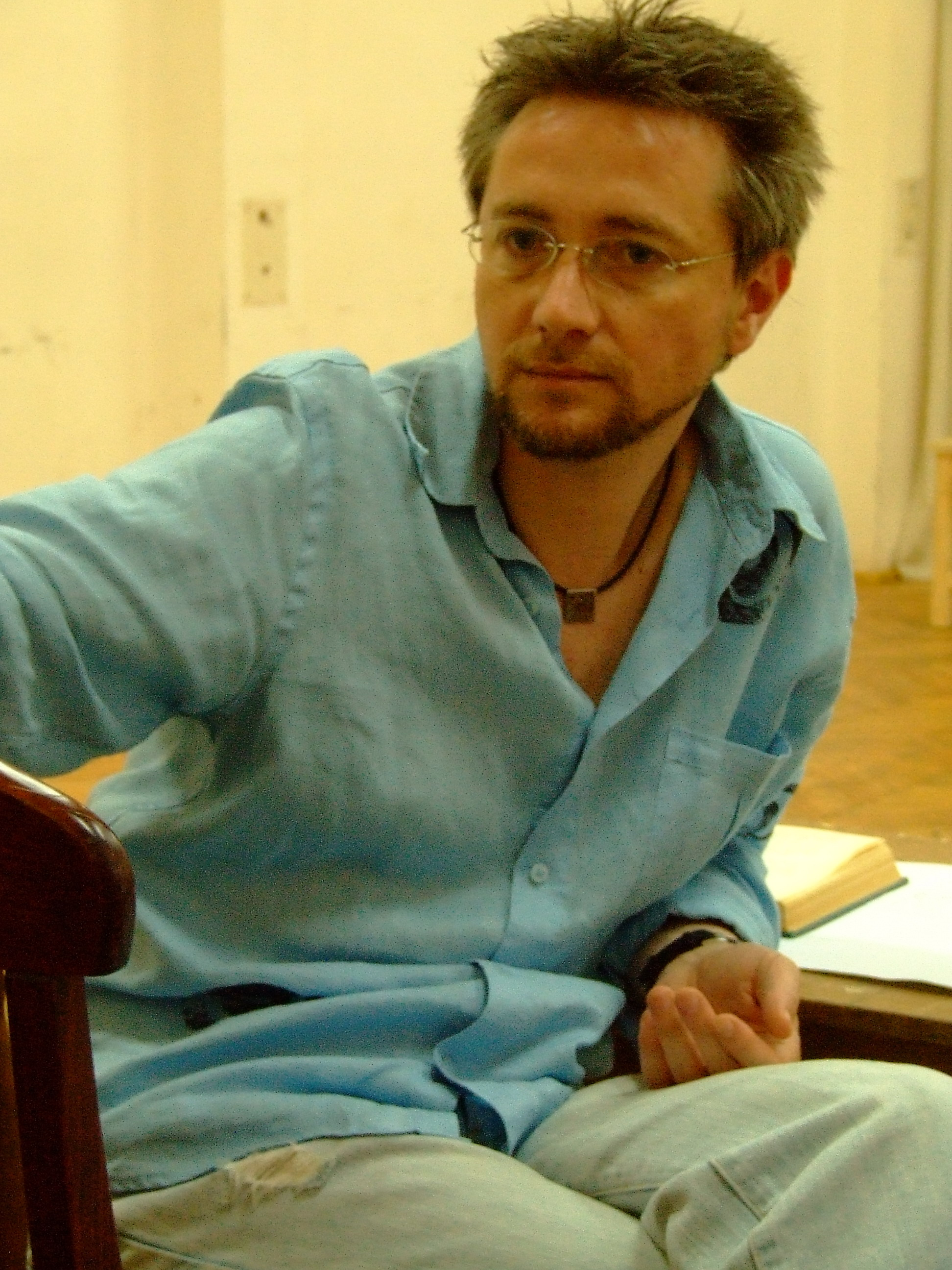 Yuri Kordonsky at the Chekhov workshop in Sibiu, 2008